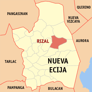 Map of Nueva Ecija showing the location of Rizal